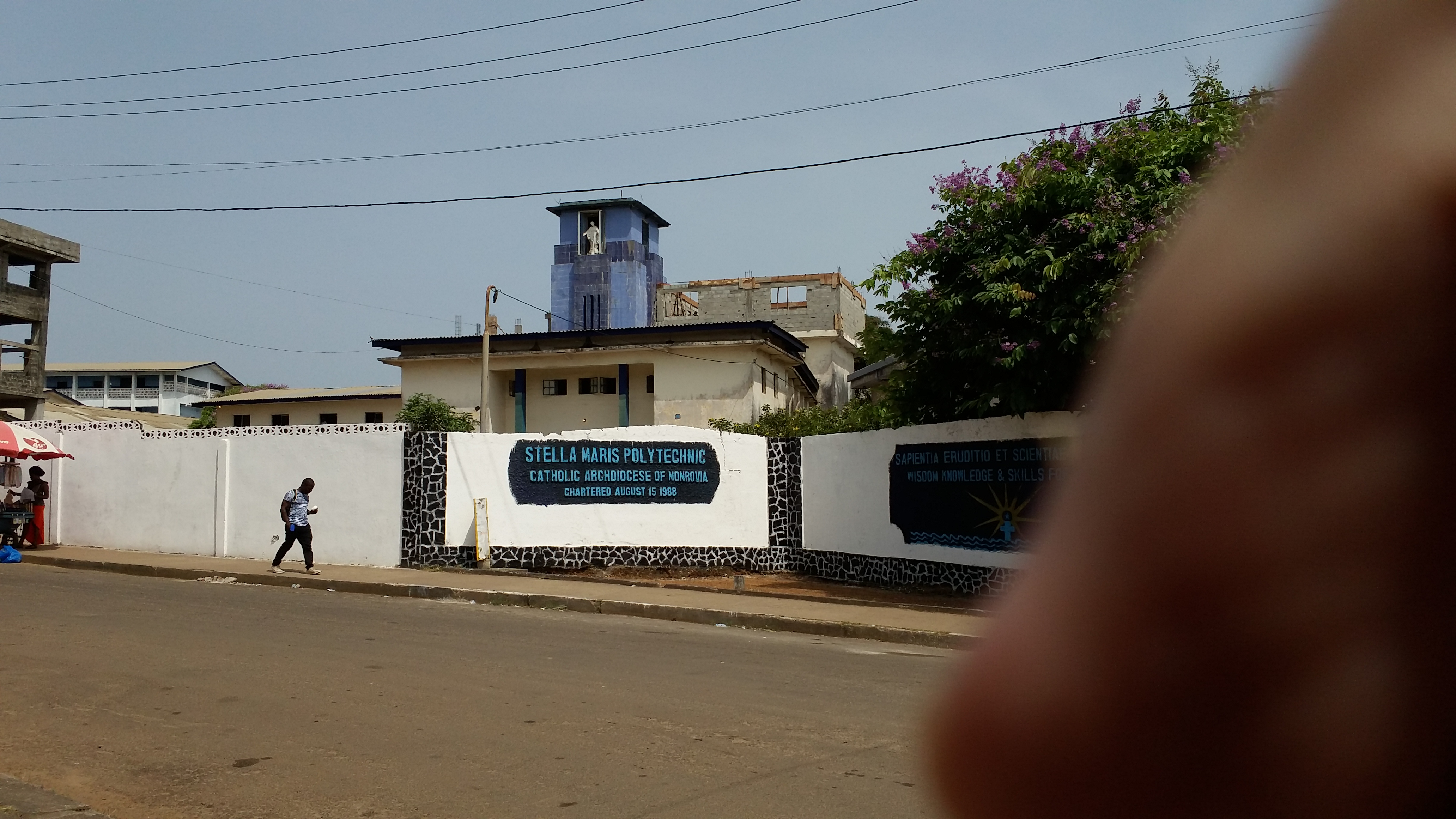 Capitol Hill, Monrovia, back entry road to University of Liberia Capitol Hill Campus